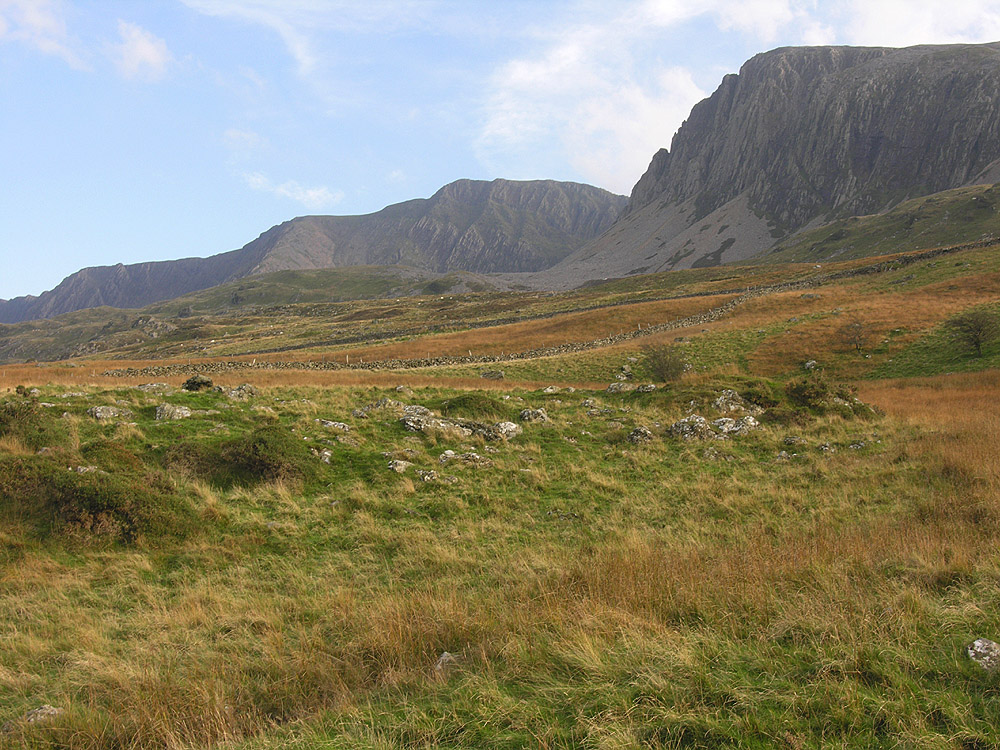 Slopes north of Cyfrwy Rough grazing at this point on the Pony Path, with rougher ground higher up. The famous arete on Cyfrwy can clearly be seen. The summit of Cadair Idris, Pen y Gadair, lies beyond.